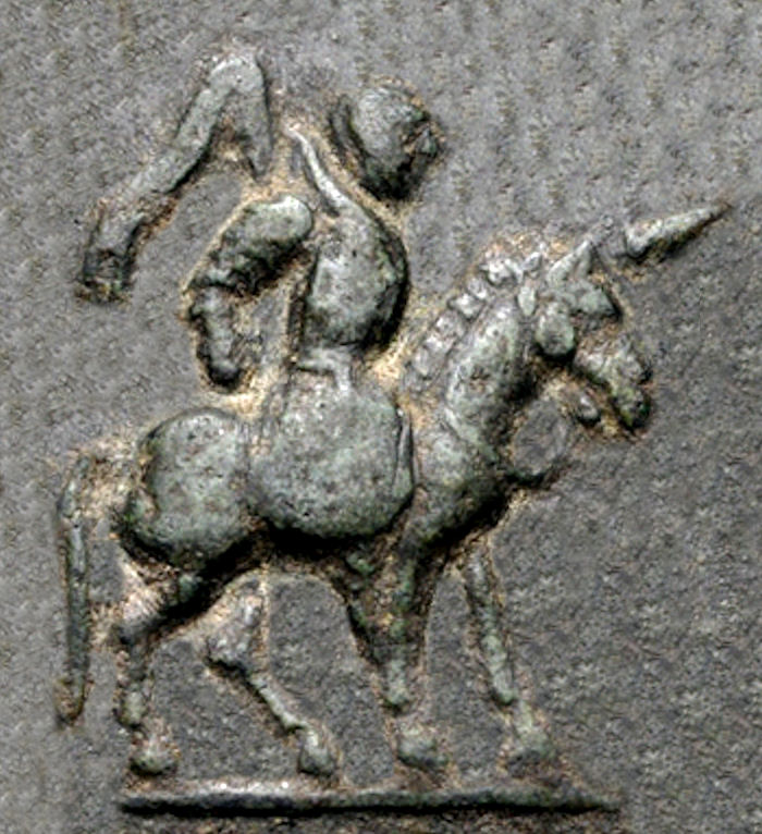 Maues on horse detail of